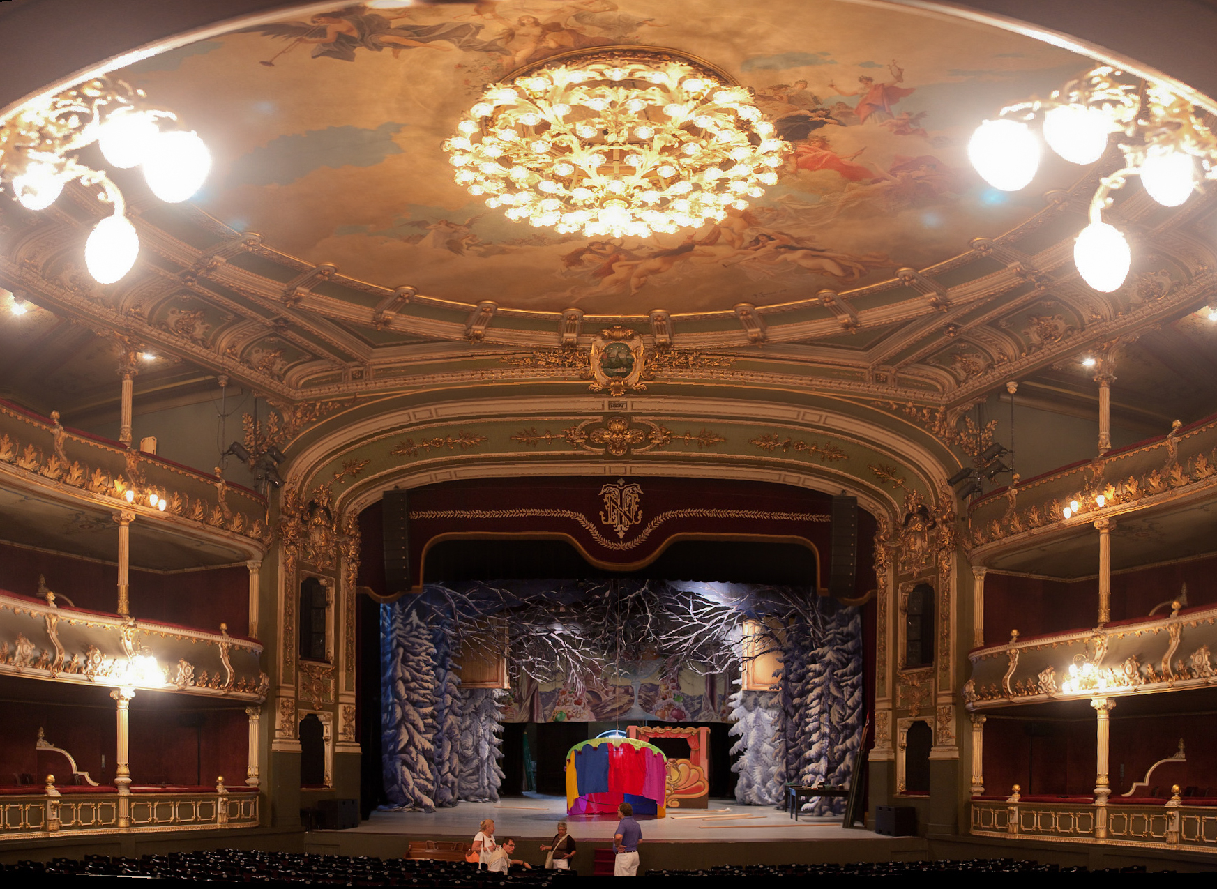 Interior view of the National Theatre of Costa Rica in San José.